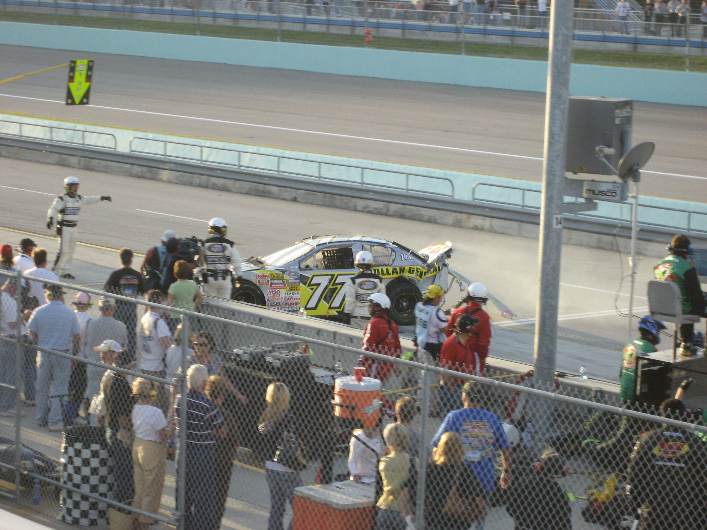 Bobby Labonte brings his car into the garage after a crash on lap 4 of the 2007 Ford 300 at Homestead-Miami Speedway.